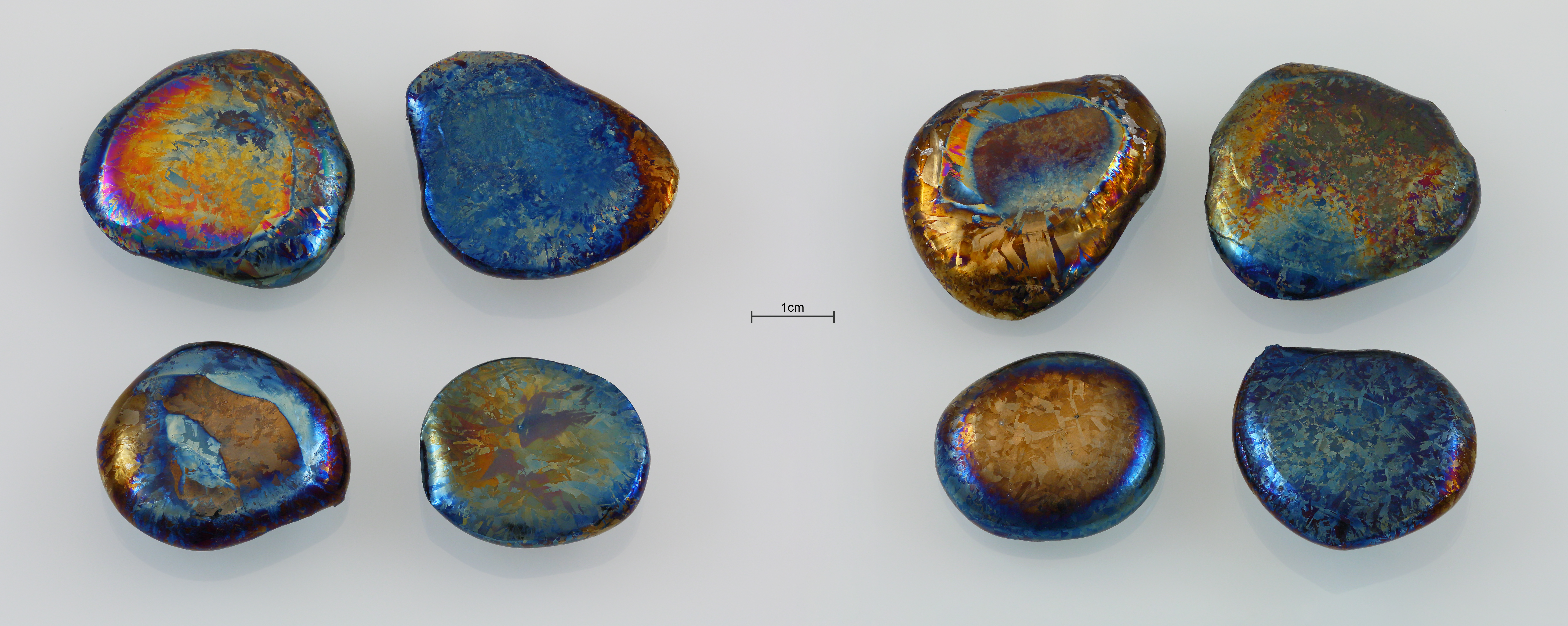 Pure (99.9 %), argon arc remelted hafnium-ingots with visible crystalline structures. View of the front- and backside. Colors are a thin film effect in the oxide layer. The metal piece-photo was taken on a white glass plate.